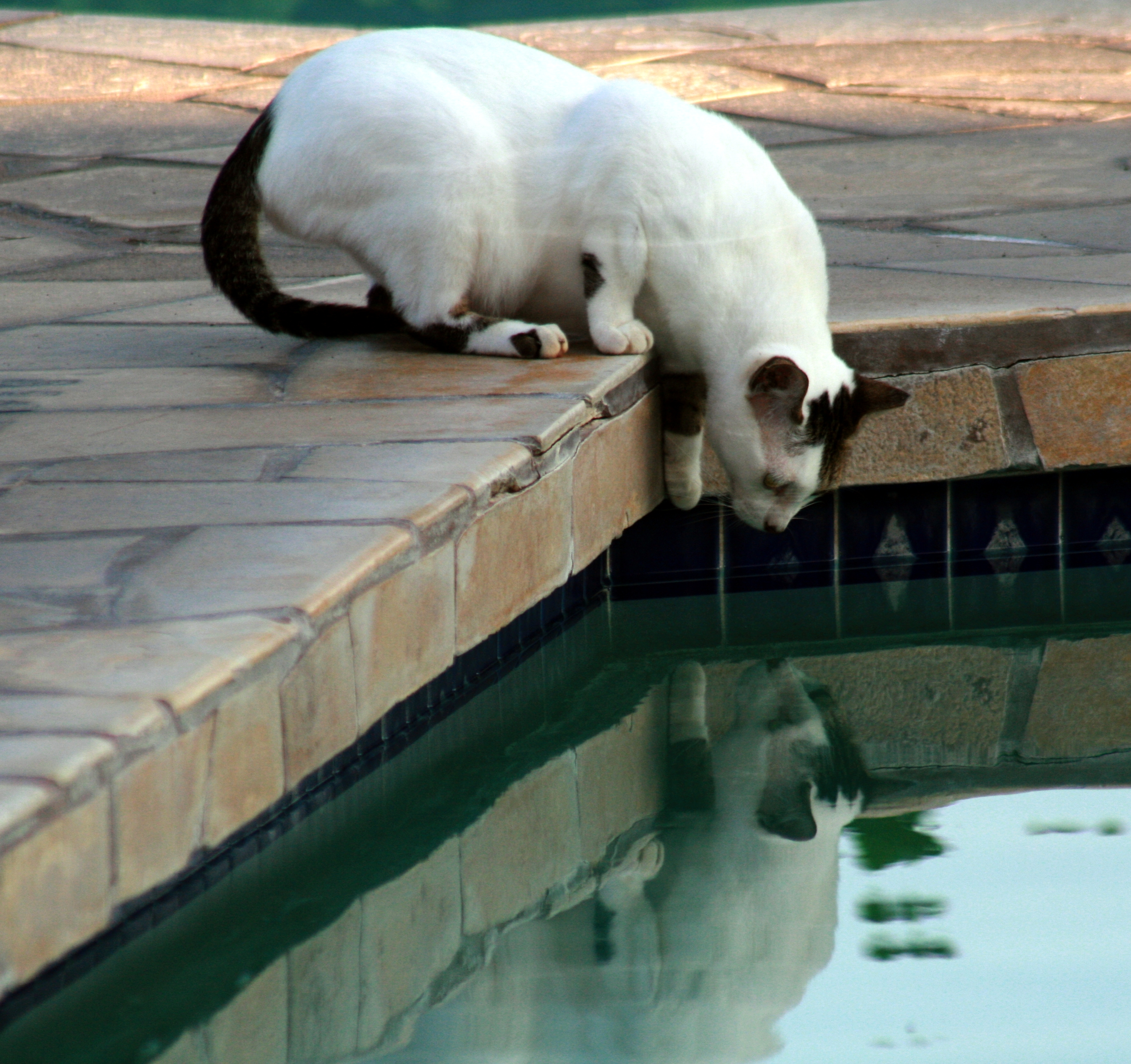 This feral cat is about to drink water from a swimming pool